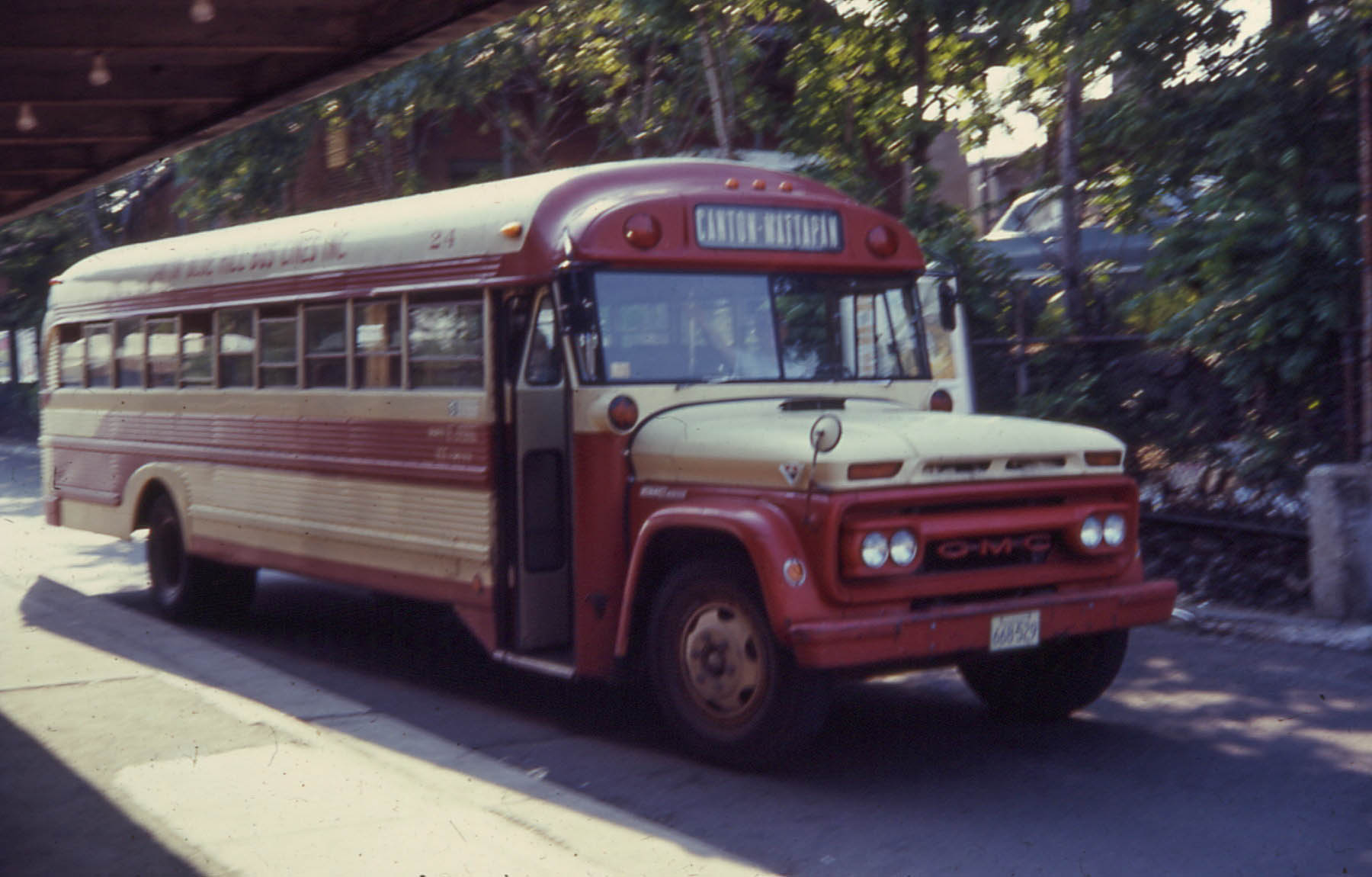 A Blue Hills Bus Lines vehicle operating the Canton-Mattapan route at Mattapan in 1967. This route is now the MBTA's #716 route, operated by a private operator under contract.